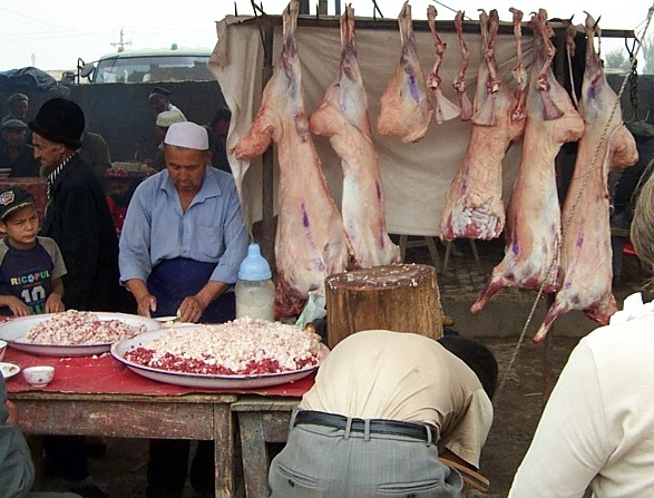 A kebab vendor using Fat Tail Sheep mutton at Kashgar Sunday Livestock Market, Xinjiang, China.